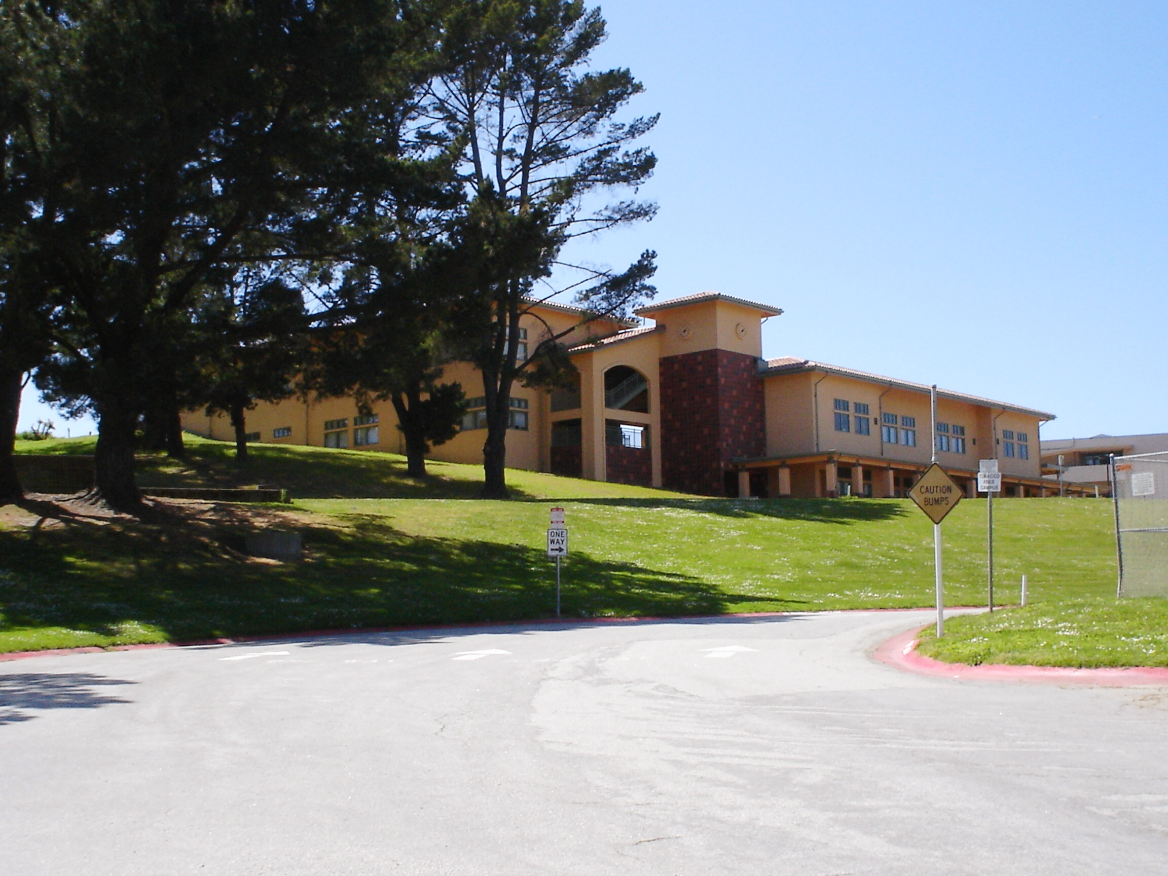 Capuchino Campus in April 2007